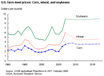 Projected farm-level prices for corn, wheat, and soybeans, 1990-February 2008, projected to 2016. Levels reflect, in part, movements in U.S. stocks-to-use ratios. Corn prices continue to rise through 2009/10 as increases in ethanol production strengthen corn demand. As ethanol expansion slows, stocks rebuild somewhat and corn prices decline. Then in the longer run, corn stocks-to-use ratios fall slowly as gains in corn used for ethanol production and moderate export growth outpace increases in production (resulting from generally higher acreage and gains in yields). Consequently, corn prices resume moderate growth and remain historically high. With competition from corn keeping soybean acreage lower, stocks are held relatively constant, the stocks-to-use ratio falls, and soybean prices remain high throughout the projections. Wheat prices decline from current levels in the early years of the projections as higher production facilitates the rebuilding of stocks. As wheat acreage declines in the latter years of the projections, stocks decline and push wheat prices up.